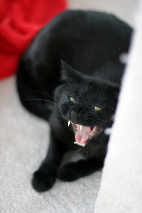 Domestic cat in the middle of yawning